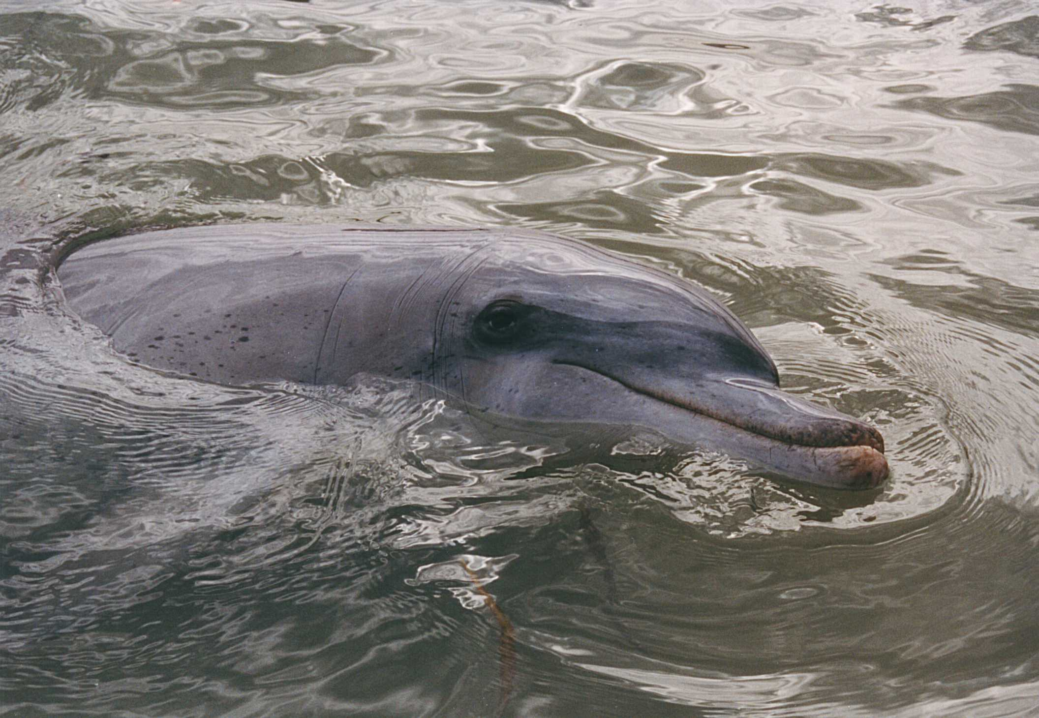 Bottlenose dolphins Tursiops aduncus coming to the shore, Monkey Mia, Western Australia